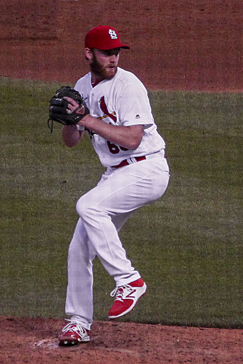 John Fulboam Brebbia Pitcher for the St.Louis Cardinals. Taken during major league debut 5-30-2017